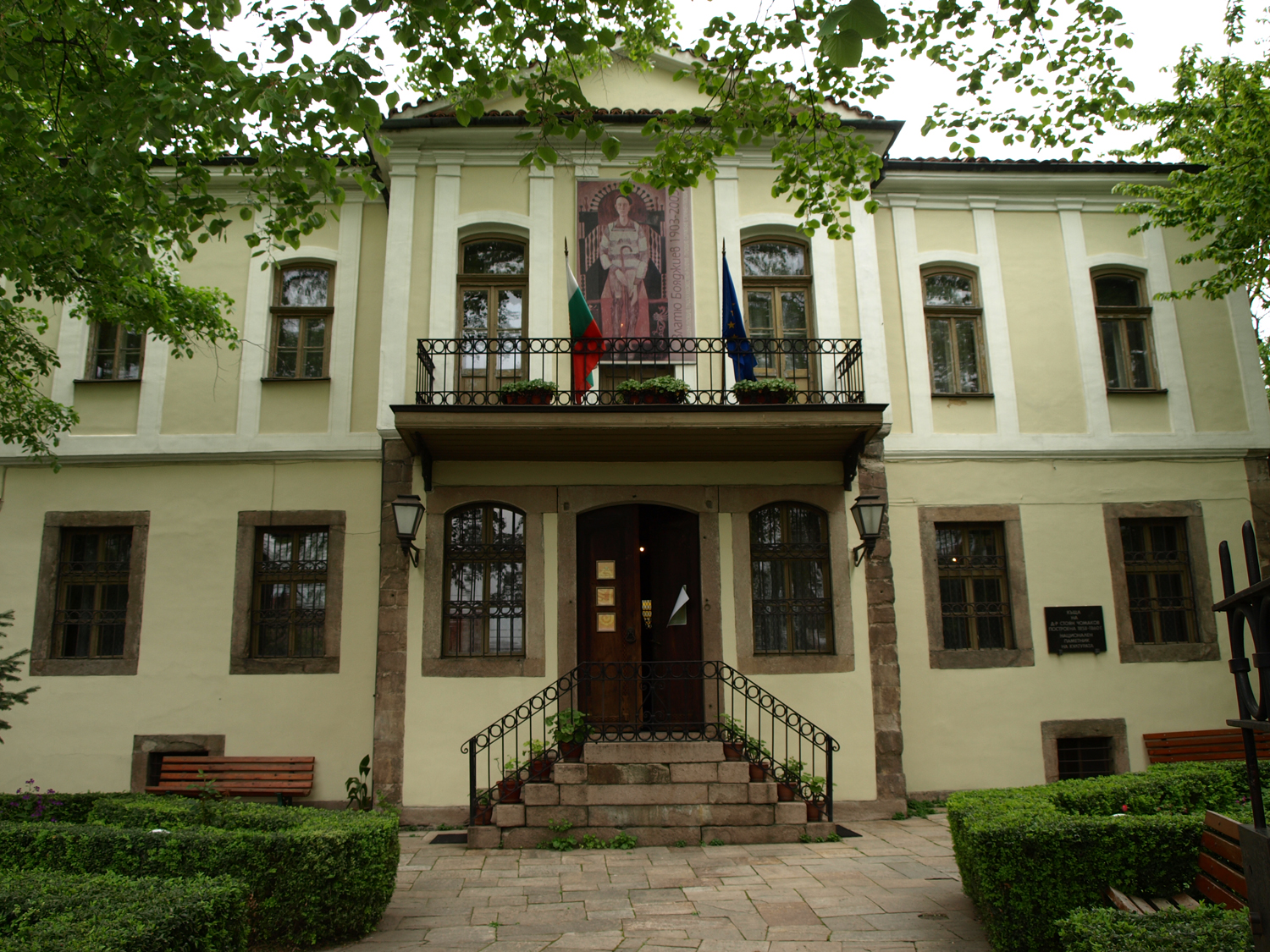 Zlatyu Boyadzhiev Exposition, Plovdiv Bulgaria